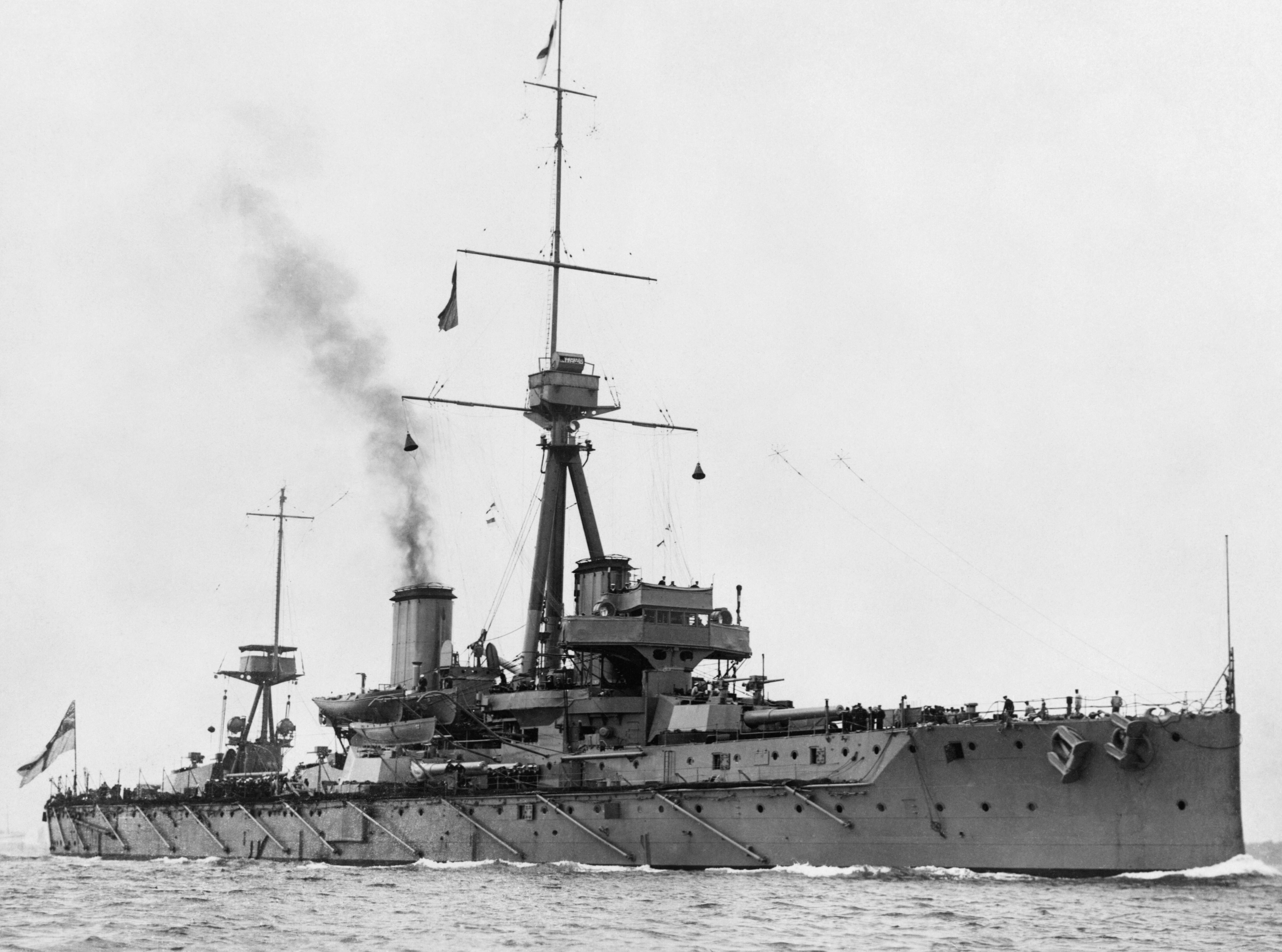 British Battleships of the First World War HMS DREADNOUGHT